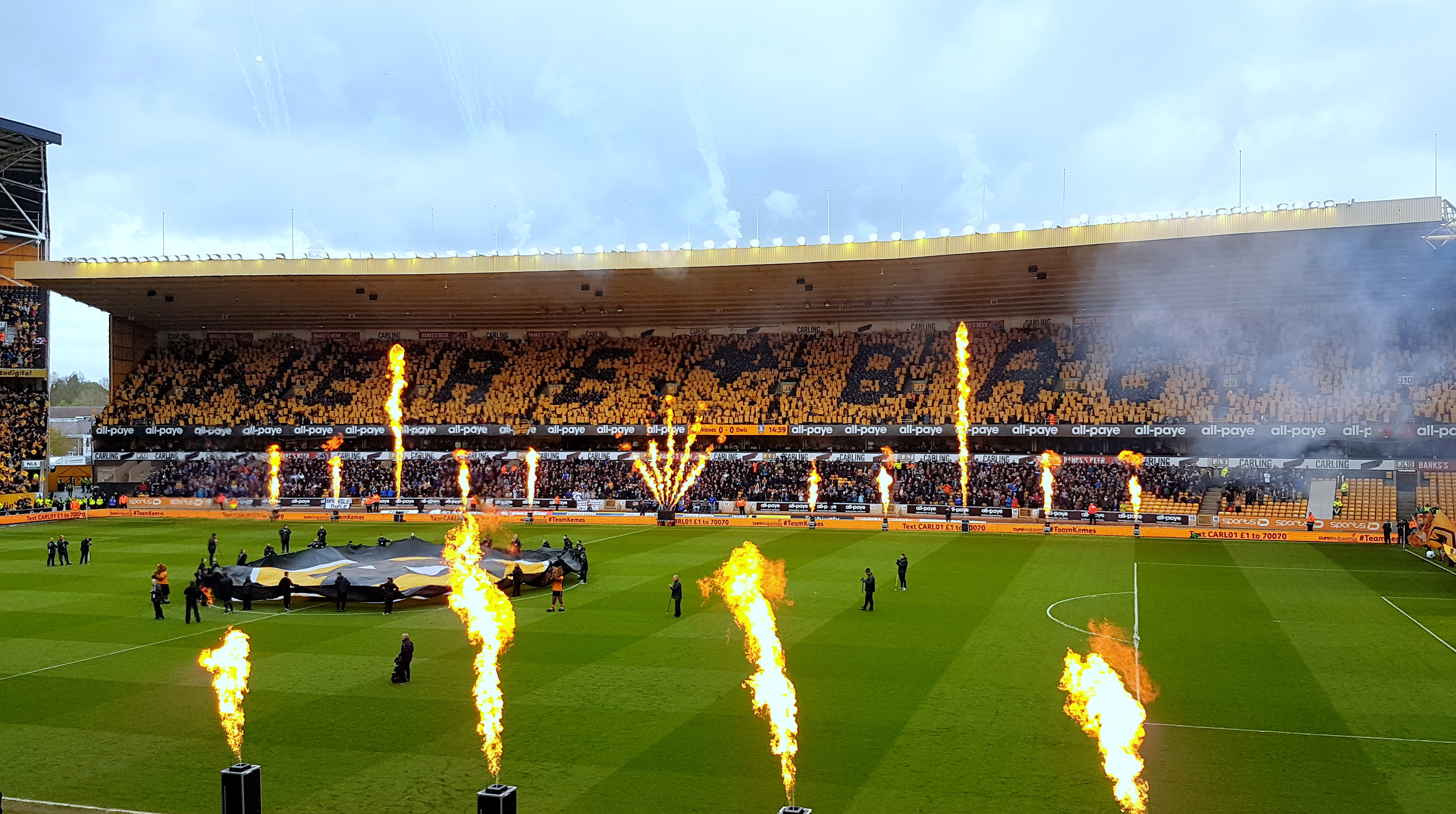 Wolverhampton Wanderers F.C. EFL Championship winners before ko v Sheffield Wednesday at Molineux Stadium 28 April 2018